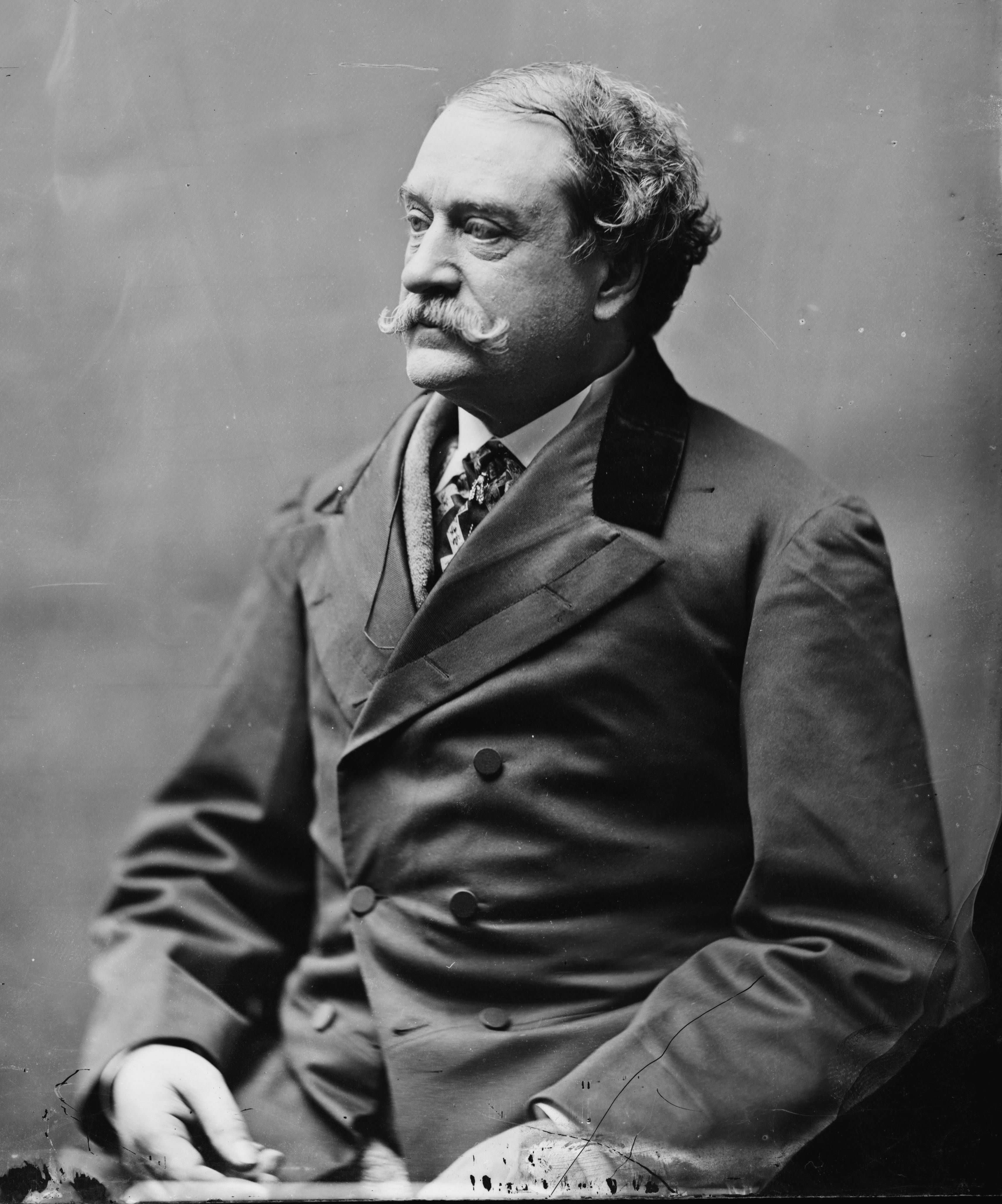 John Brougham. Library of Congress description: "John Brougham".